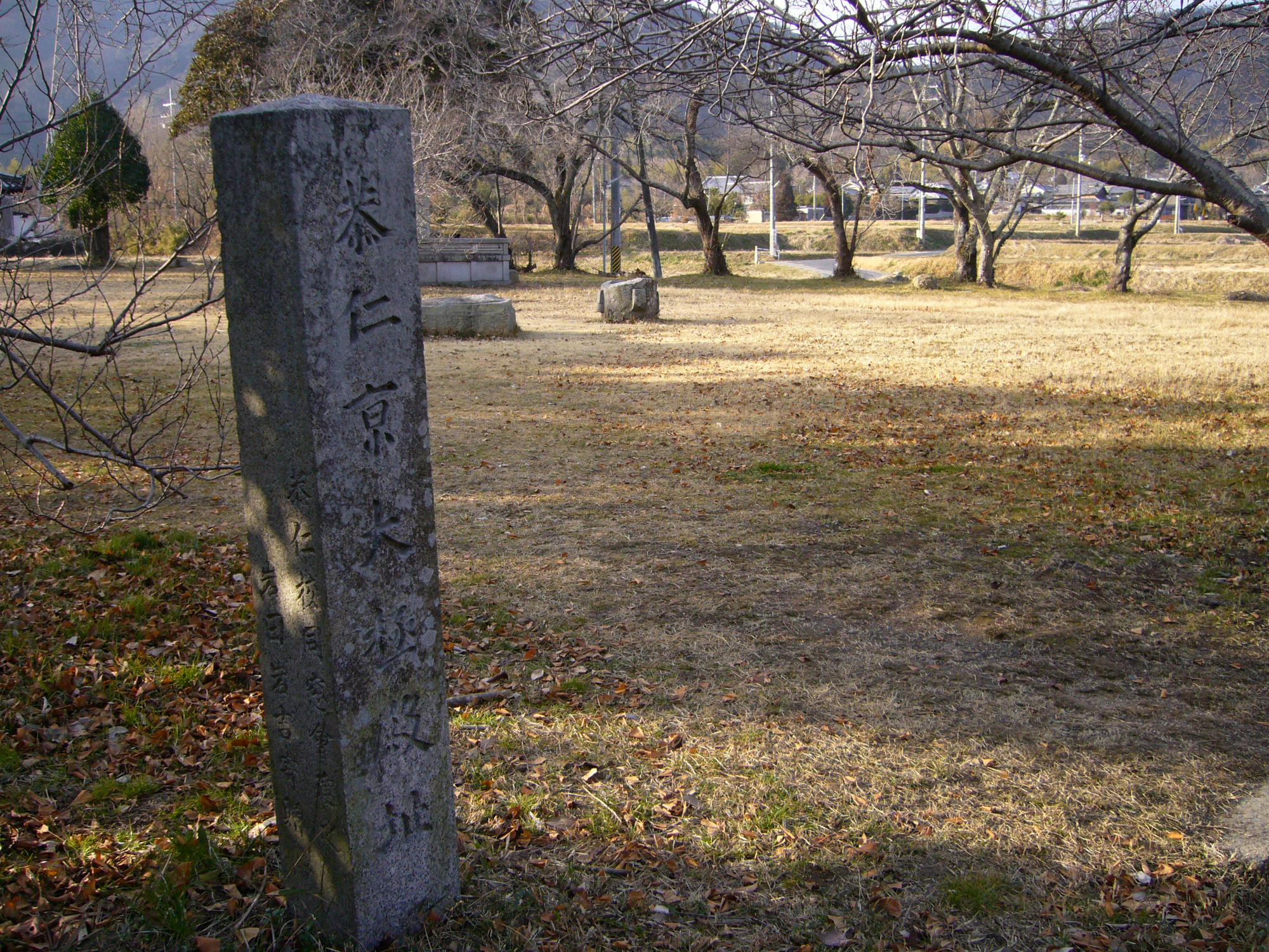 Kuni-kyō ruins in Kizugawa, Kyoto prefecture, Japan